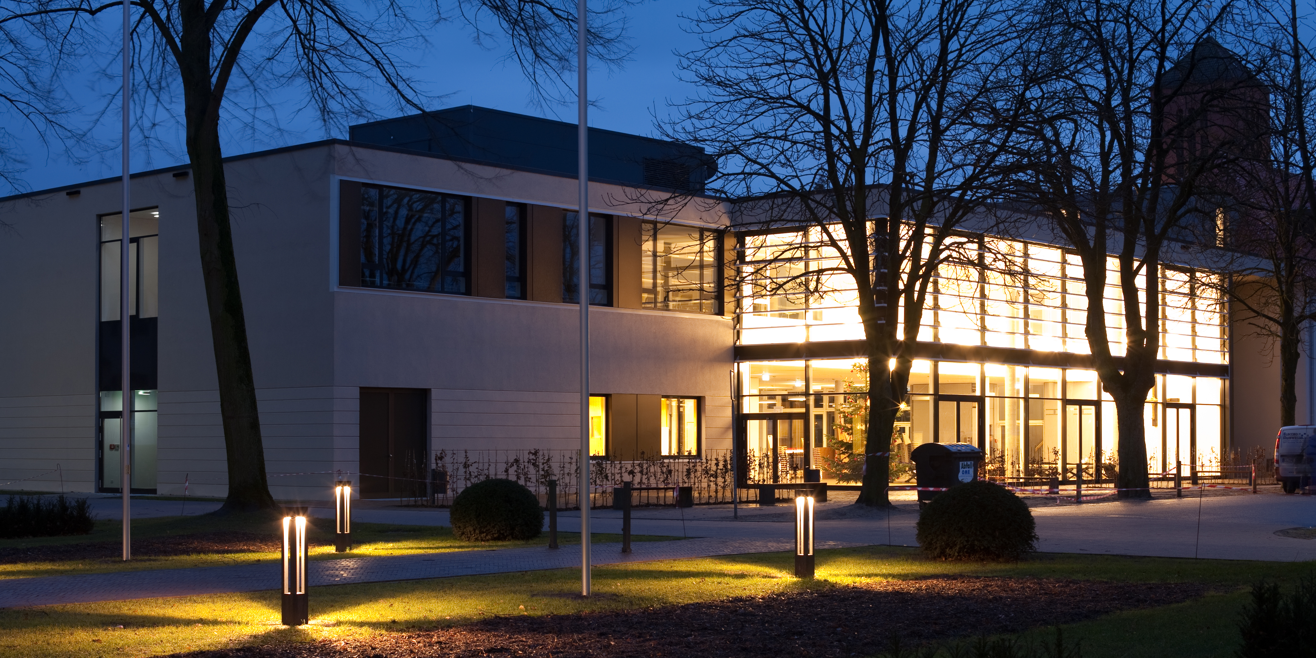 Mensagebäude des Clemens-August-Gymnasiums, Cloppenburg